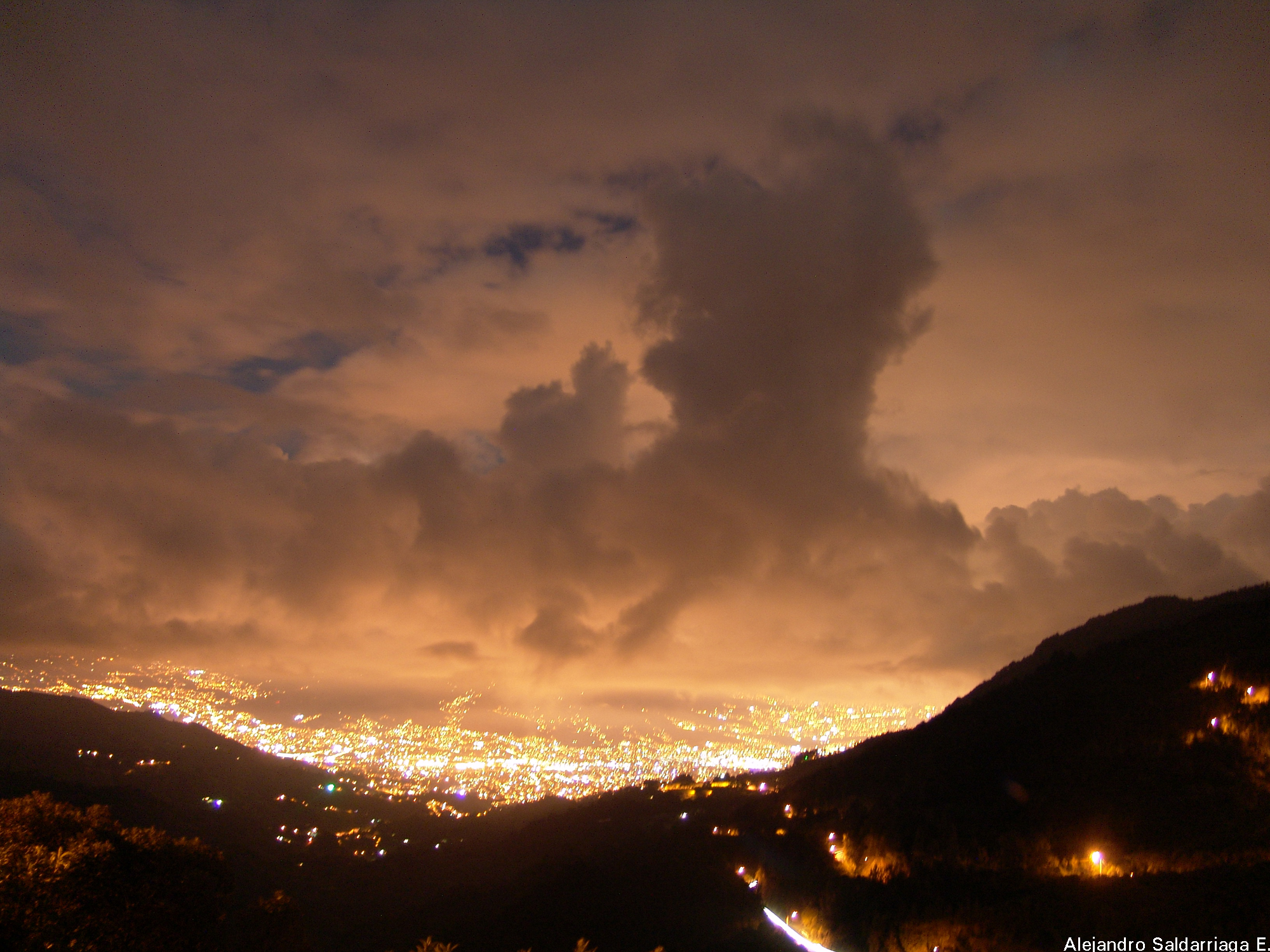 Medellín Night View.